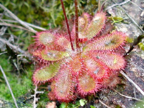 The Sundew (Drosera montana), a carnivorous plant. Photo by M. A. P. Accardo Filho.